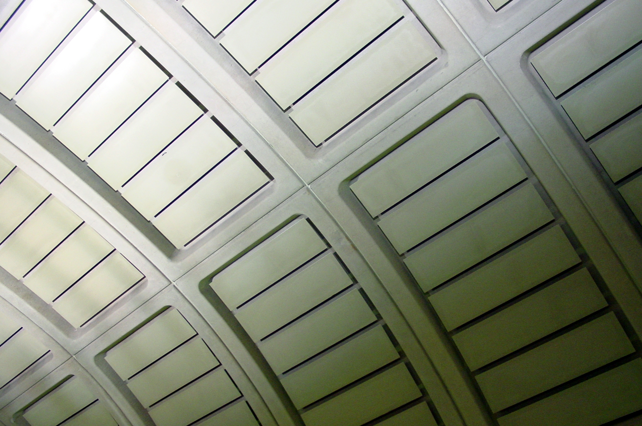 Six-coffer arch ceiling in Washington Metro station. Station is believed to be Columbia Heights, based on Flickr uploader's comments.